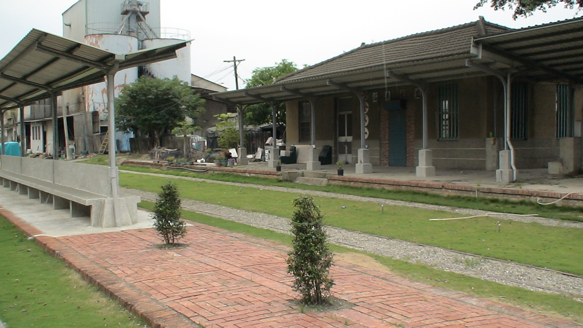 Yanshuei Railway Station, Yanshuei, Tainan, Taiwan 布袋線鹽水車站 布袋線塩水駅